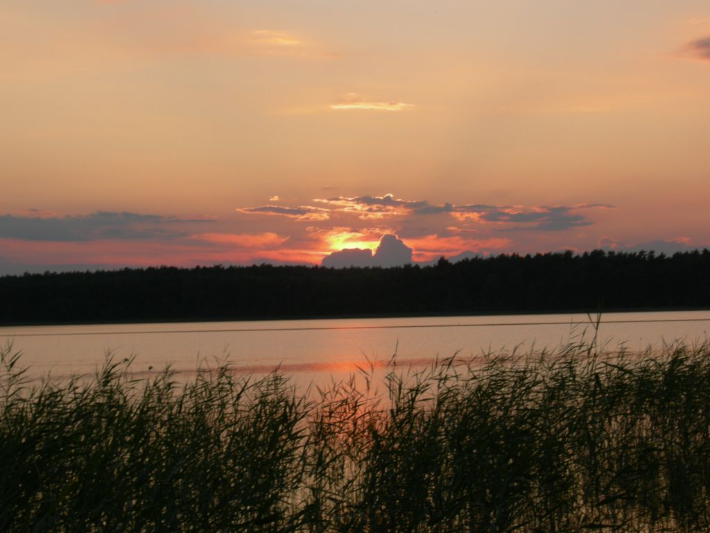 Sunset at Great Bytyń Lake (Bytyń), Poland.